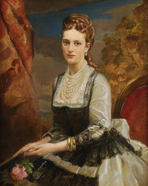 Portrait of Princess Alexandra of Denmark, Later Queen Consort of Edward VII